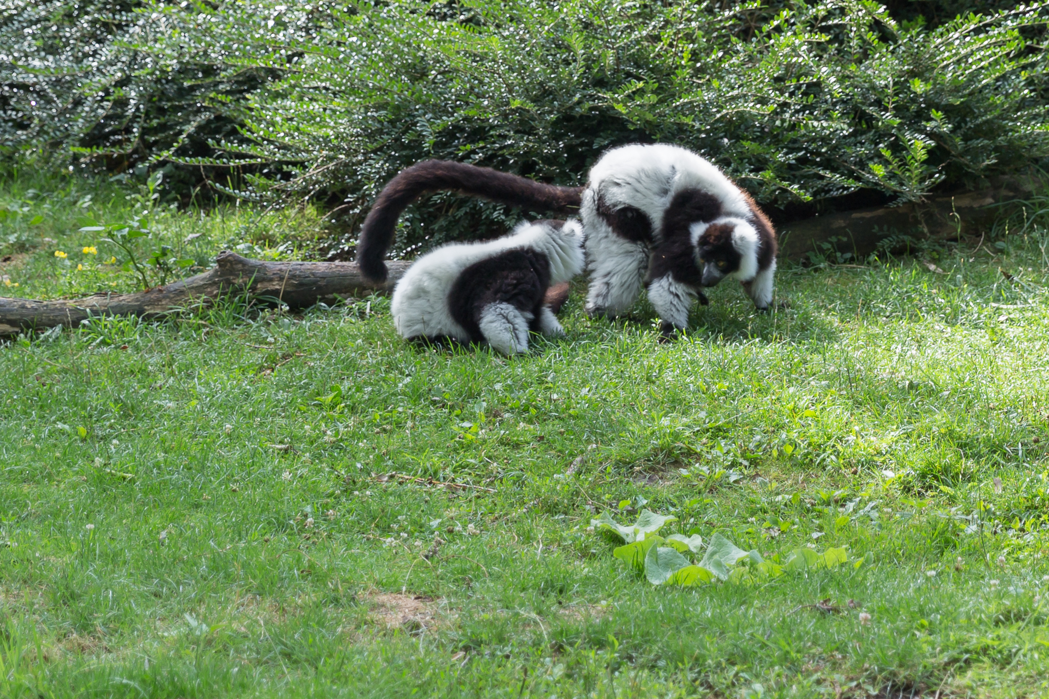 Varecia variegata (Black-and-white ruffed lemur) in the ZooParc de Beauval in Saint-Aignan-sur-Cher, France.